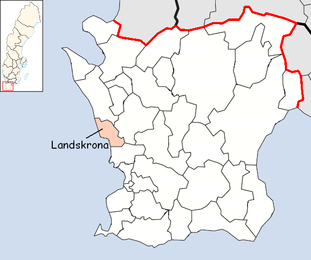 Landskrona Municipality in Scania, Sweden Designed by me. Mere outlines are a PD source from